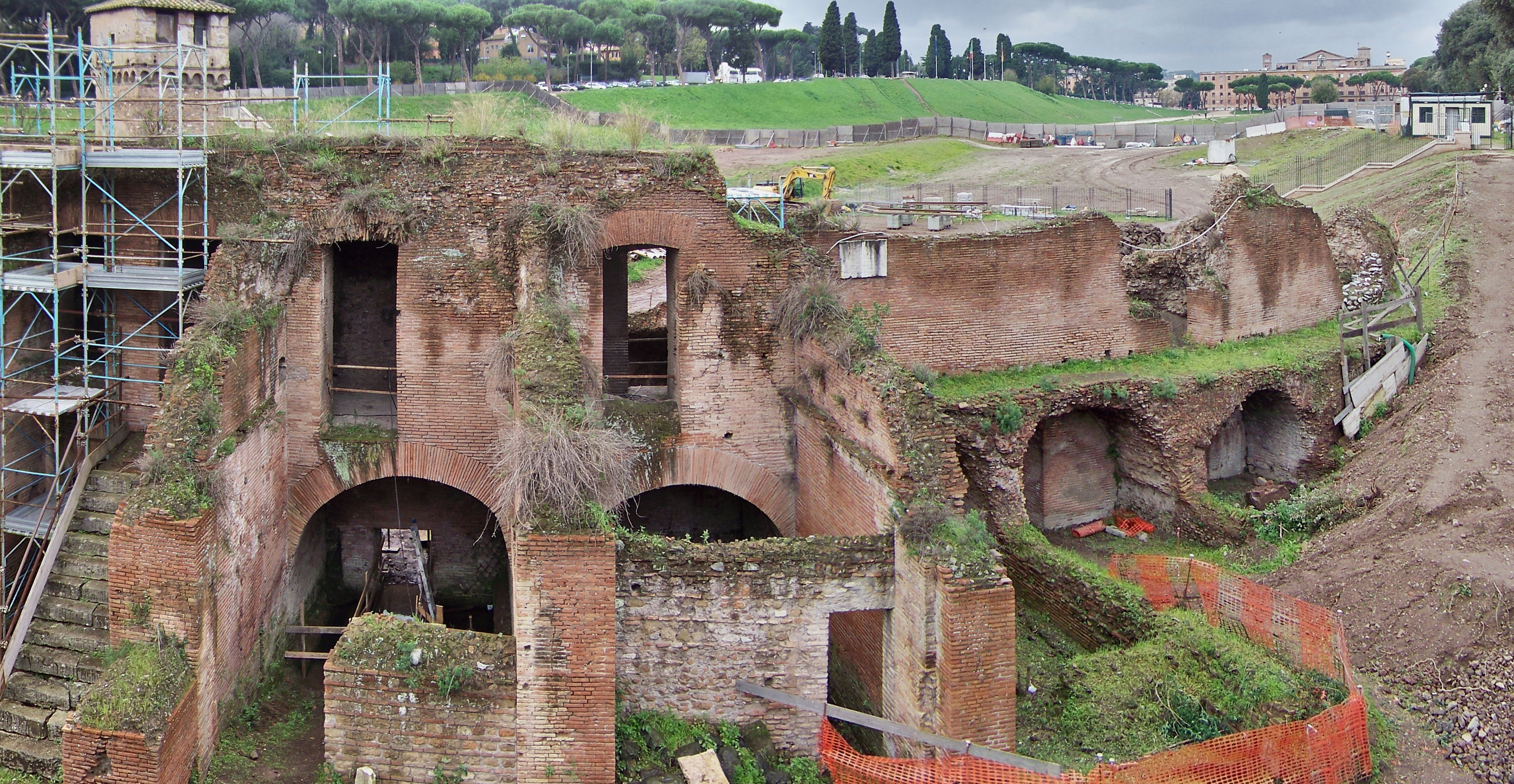 Circus Maximus Archeological Area.